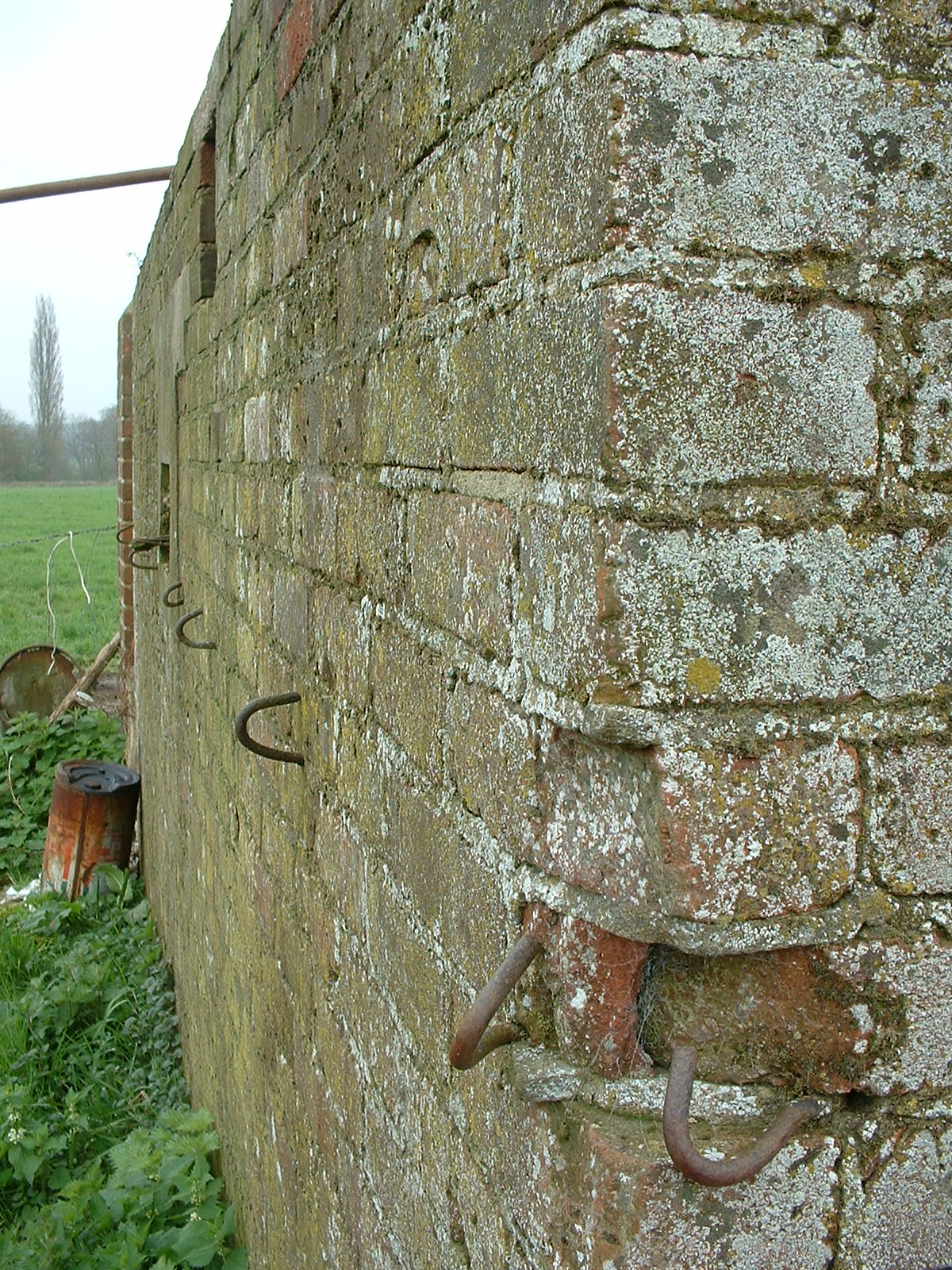 Detail of Vickers MMG emplacement showing hooks for camouflage netting at Hancocks Farm, Crookham, Hampshire, OS reference SU790514. On farm land. OS reference SU790514